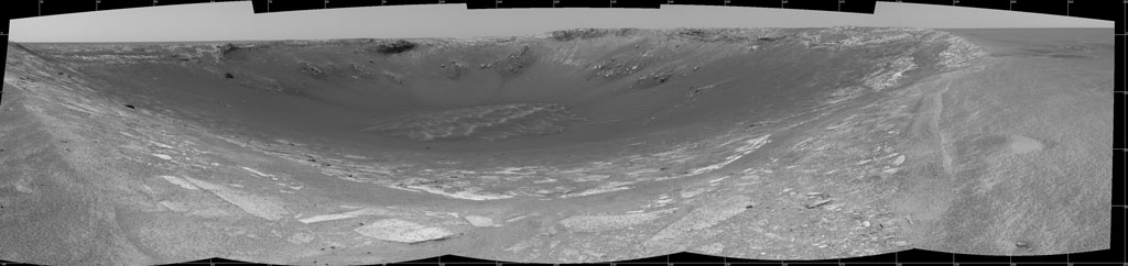 Panorama of Endurance crater. This 180-degree view from the navigation camera on the Mars Exploration Rover Opportunity is the first look inside "Endurance Crater." The view is a cylindrical projection constructed from four images. The crater is about 130 meters (about 430 feet) in diameter. Obtained from